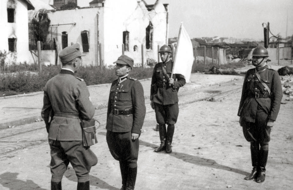 Parliamentarians of the Polish Army on the frontline Lwów, Gródecka street, September 1939